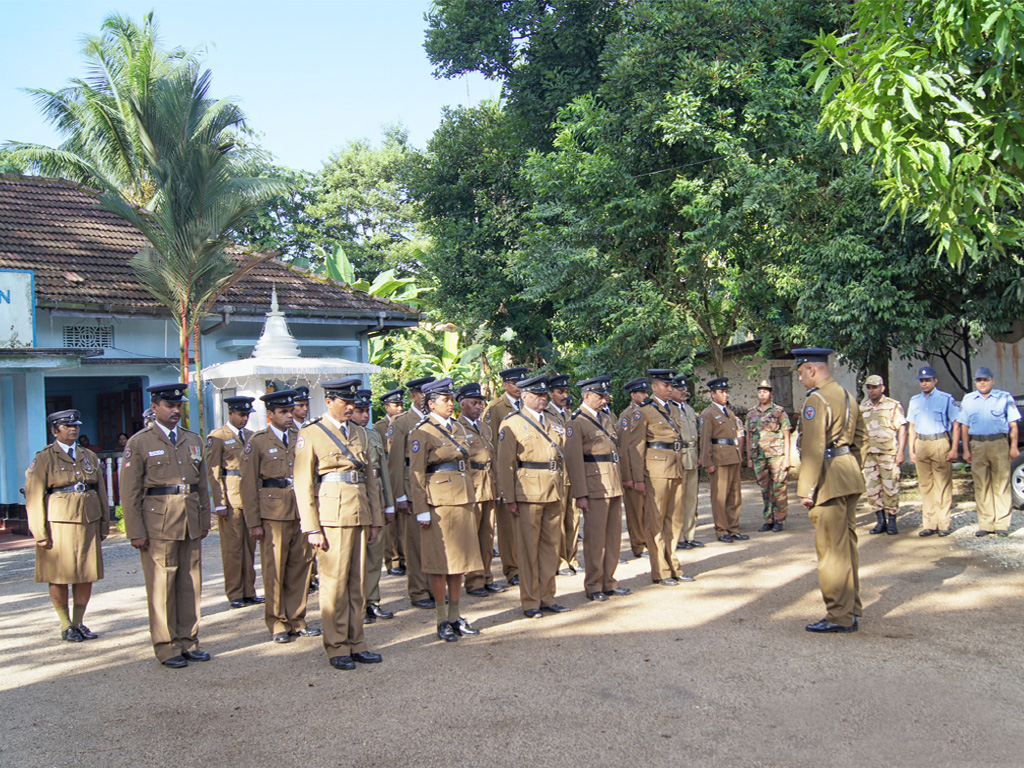 Ingiriya Administration02